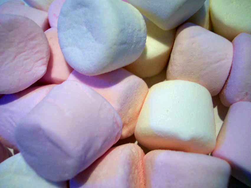 Marshmallows